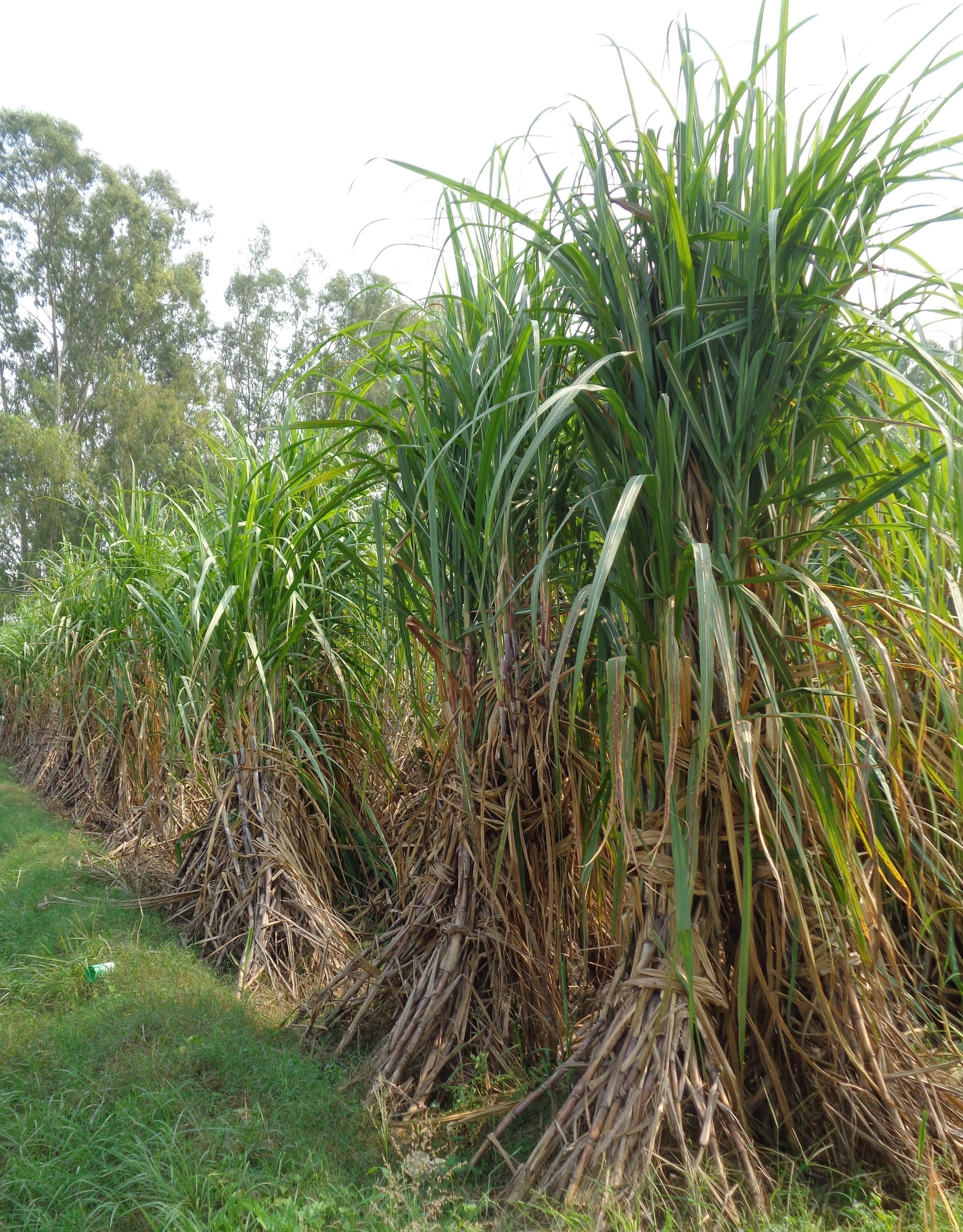 Sugarcane crop in Punjab